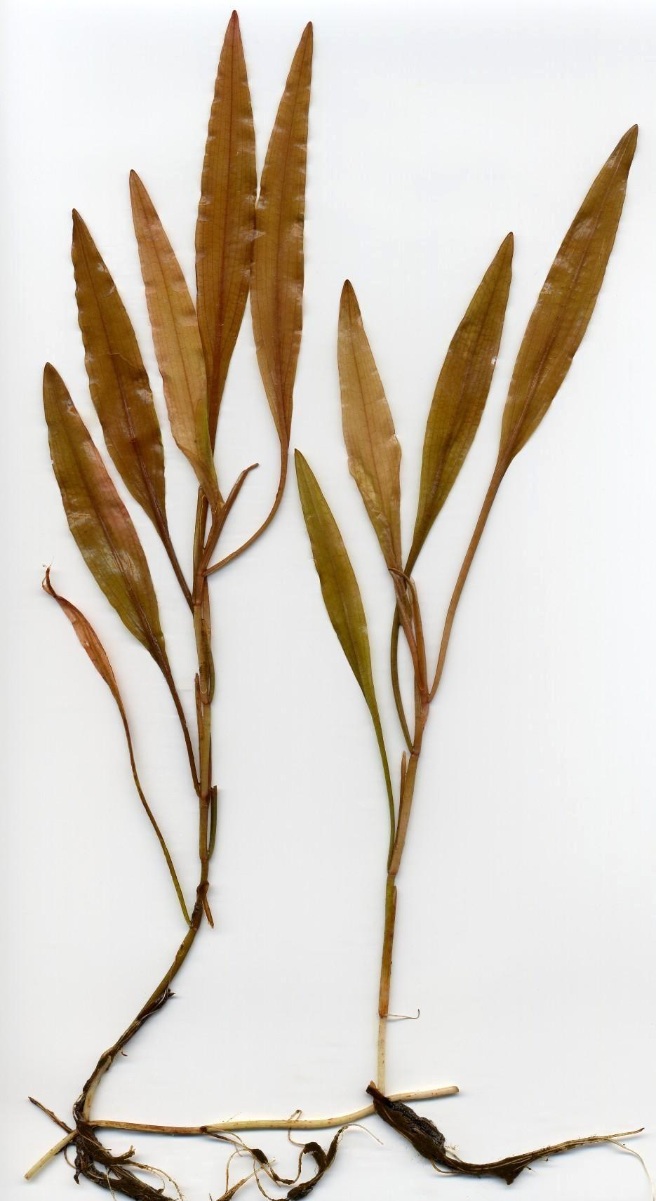 Submerged leaves of the pondweed Potamogeton polygonifolius.